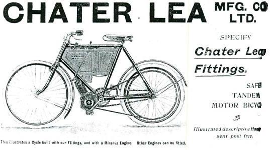 1902 Chater Lea advertisement